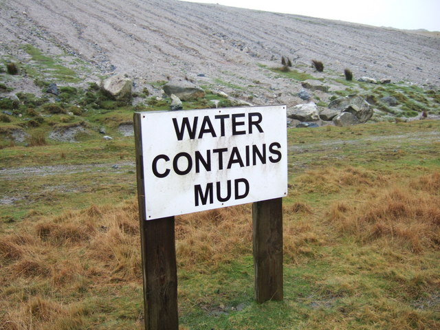 Water contains mud Something to ponder over while trudging across Dartmoor in the pouring rain. This somewhat philosophically inclined notice, not exactly forbidding, is alongside the edge of Wotterwaste China Clay Works (another name to reflect on), on Shaugh Moor.